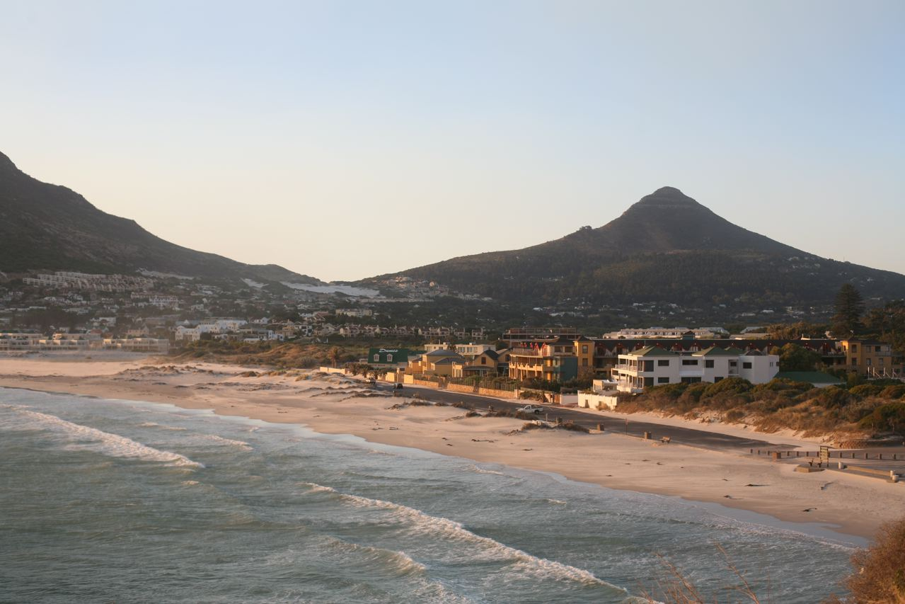 Hout Bay, Cape Town, South Africa in January 2006.